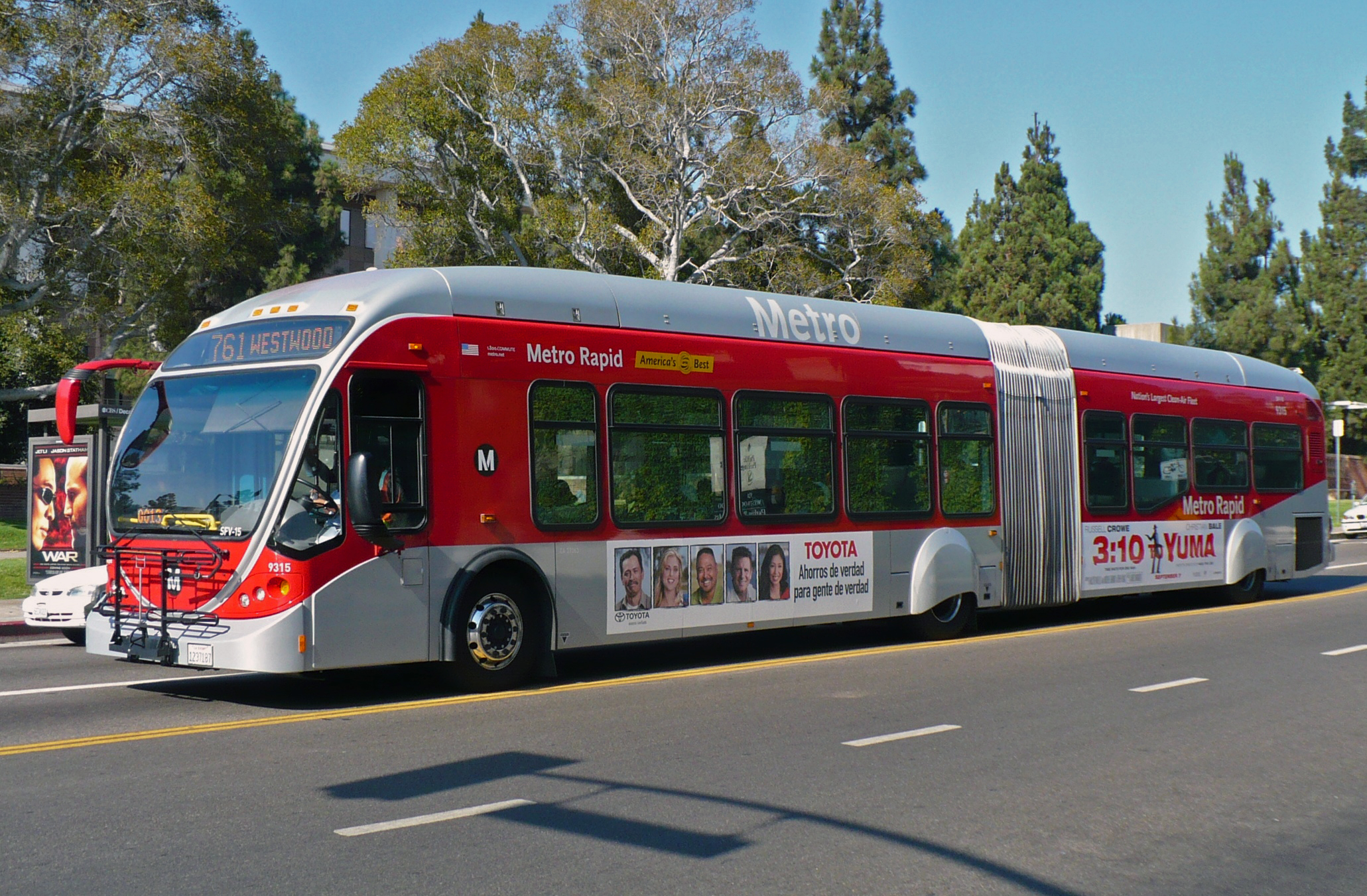 1 Photographer:Nikhil Kulkarni